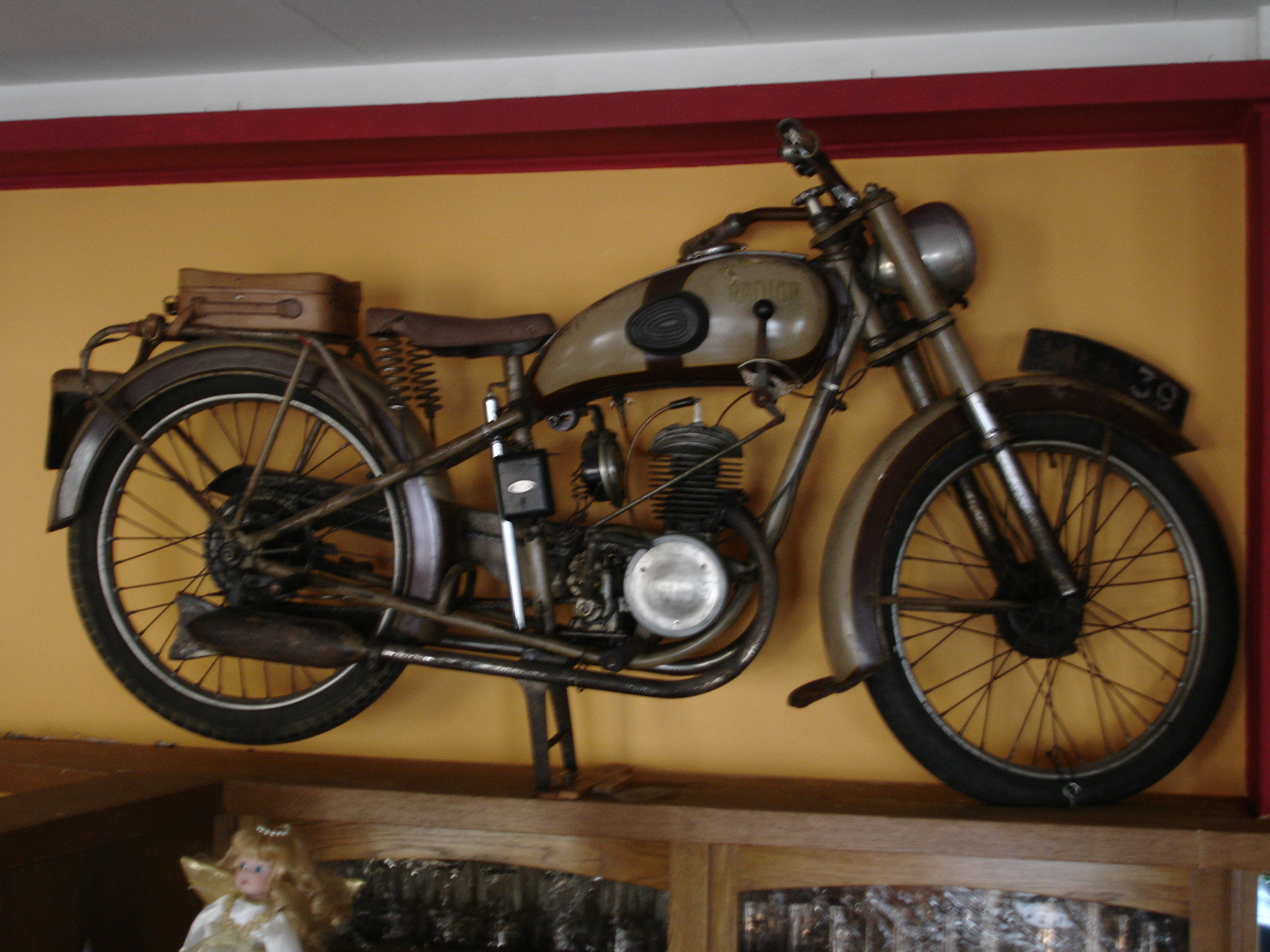 Radior 125 cc motorcycle